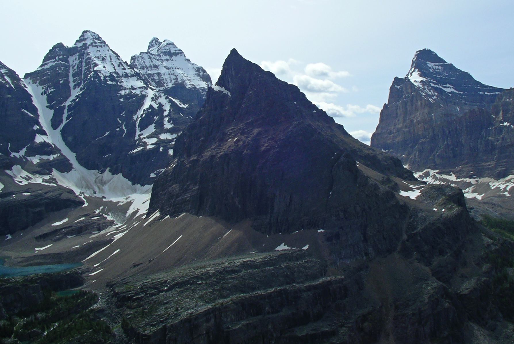 Yukness Mountain centered. Yoho National Park, Canada